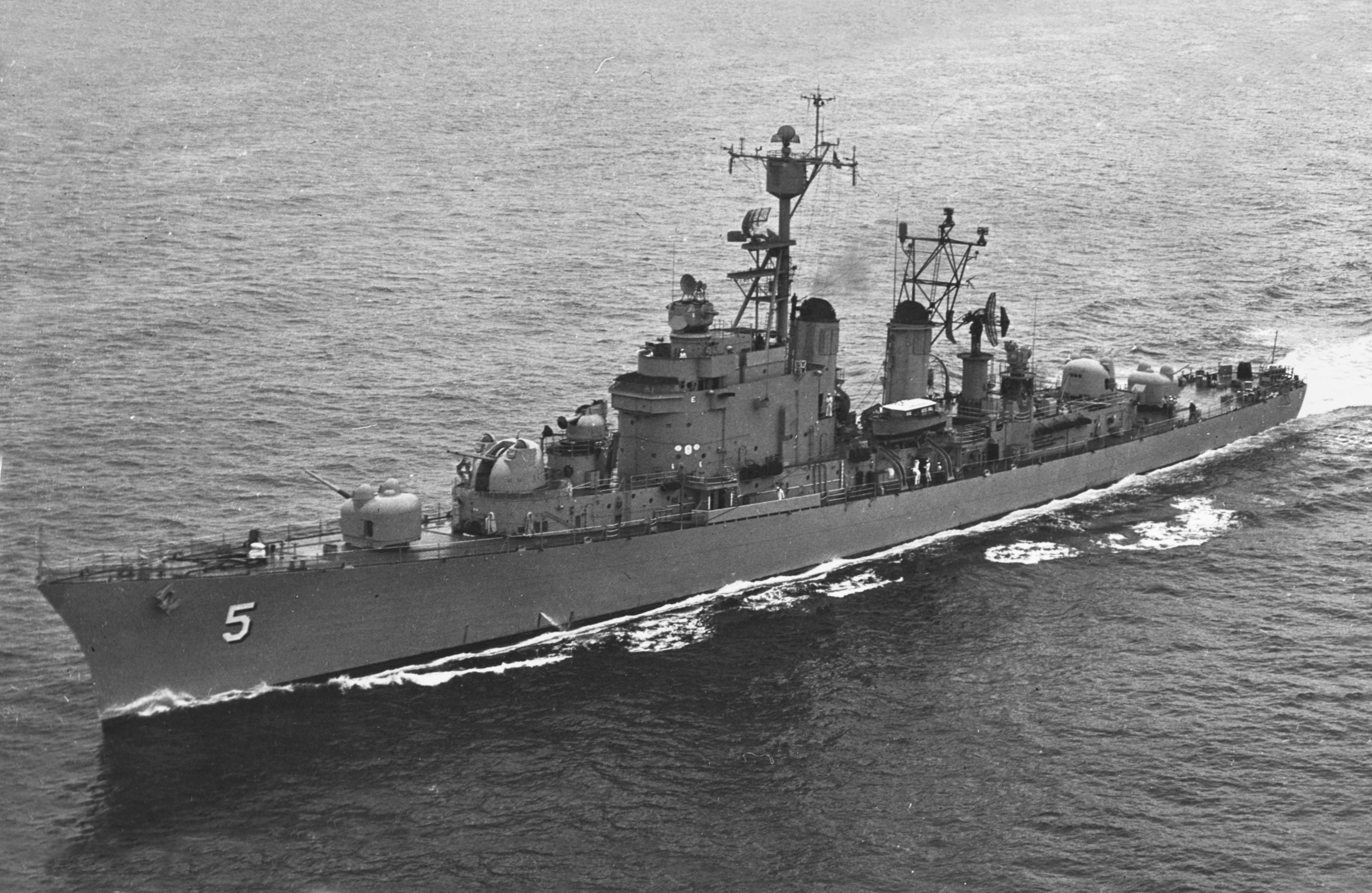 The U.S. Navy destroyer leader ("frigate") USS Wilkinson (DL-5) underway in the late 1950s, following the installation of 7.6 cm/70 turrets in place of her original 7.6 cm/50 mounts.